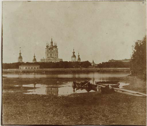 The Smolnoi Monastery, St. Petersburg, 1852 salt print from wet collodion negative titled and credited in pencil (on the verso) 7½ x 8¾in. (19 x 22.1cm.)